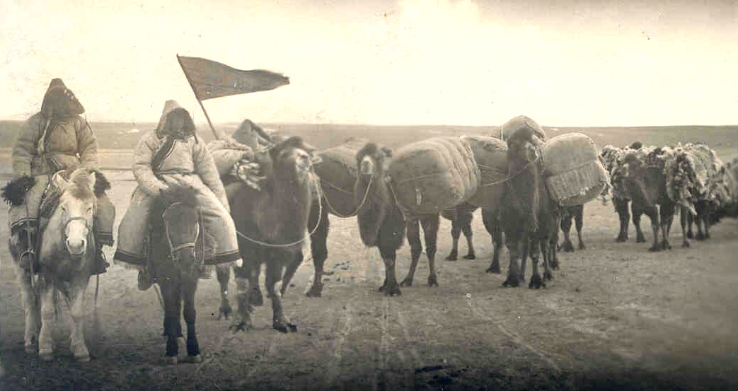 This is a photo of an Oirat caravan. The nomads, most likely from China or Mongolia, are going to a town to conduct trades of goods. Date and publisher unknown.